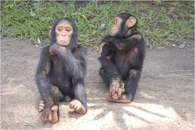 Unnamed - Chimpanzee - Central African Republic